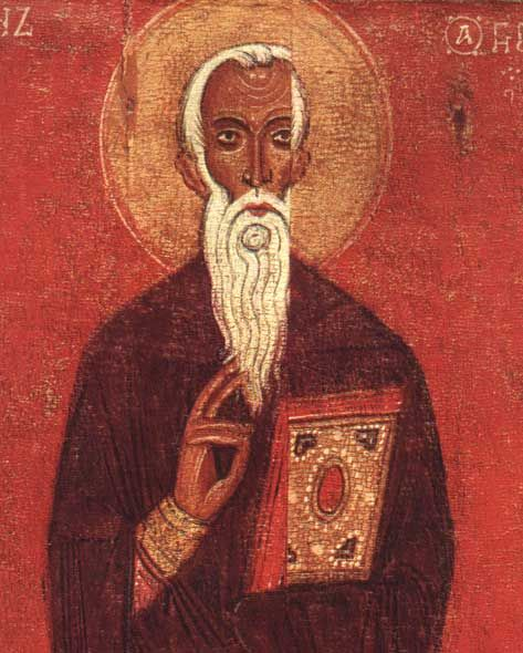 St. John Climacus. A detail of the Novgorod icon "[Saints] John Climacus, George and Blaise." State Russian Museum, St. Petersburg, Russia